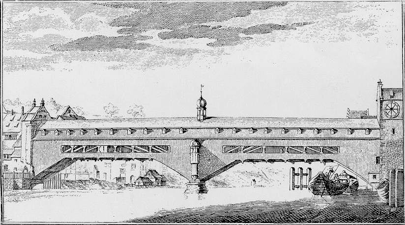 Covered Bridge in Schaffhausen built by Grubenmann, destroyed 1799